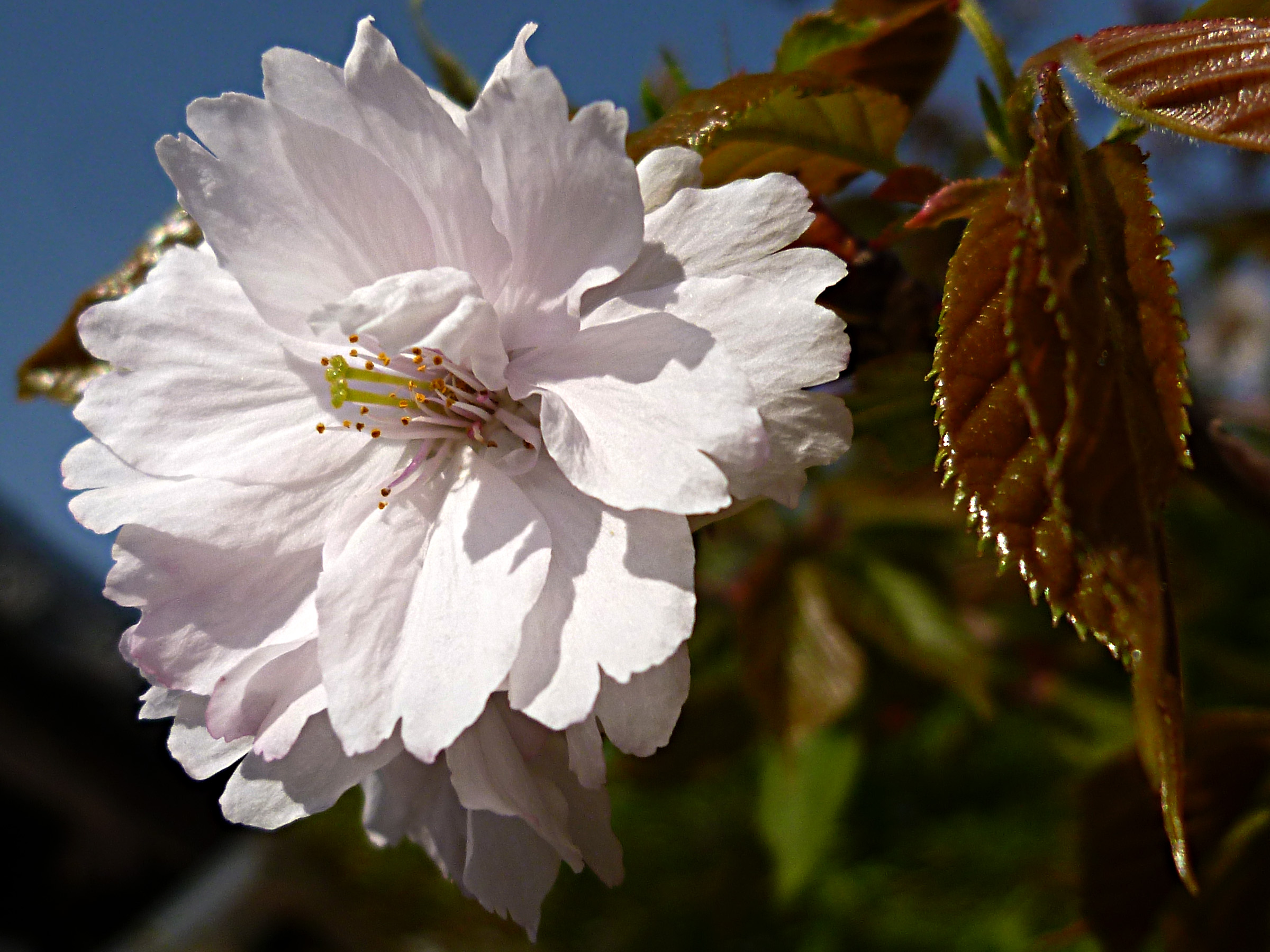 Flower of Prunus verecunda 'Antiqua' Place taken: Shinke-Chofukuji, Mitsuyoshi, Koryo, Nara, Japan. Date taken: 2016-04-20 (YYYY-MM-DD)